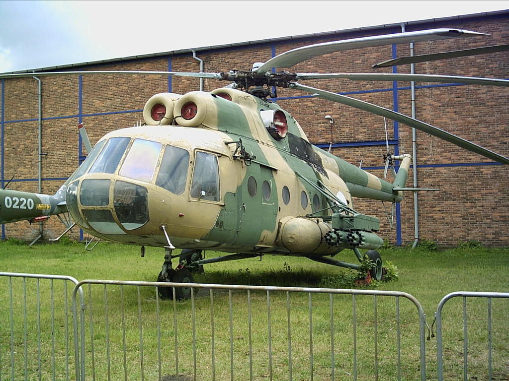 Mil Mi-8T, Kbely museum, Prague, Czech Republic